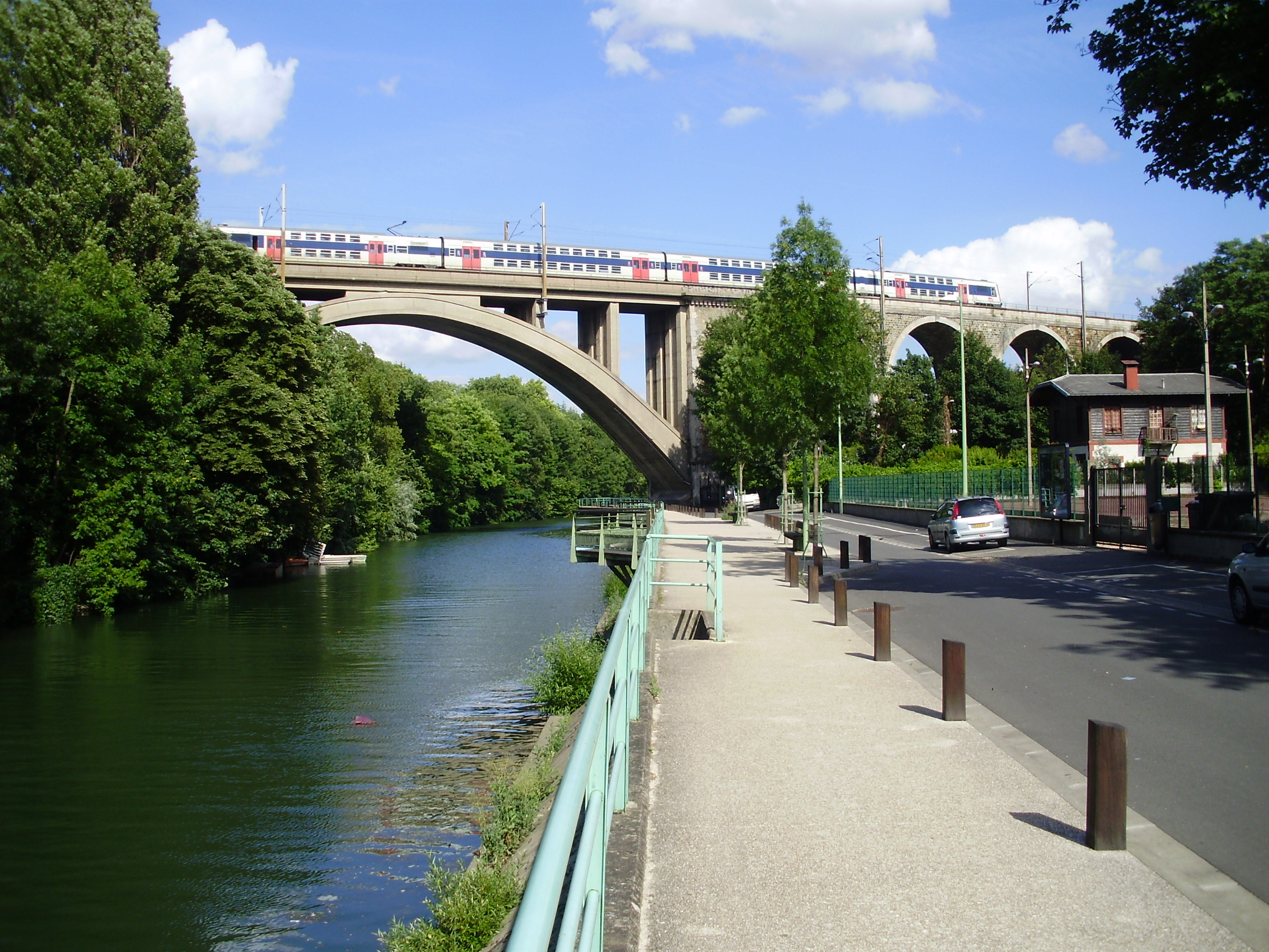 Railway bridge of Nogent-sur-Marne, Val-de-Marne, France, seen from the quai du viaduc (viaduct embankment) in Champigny-sur-Marne